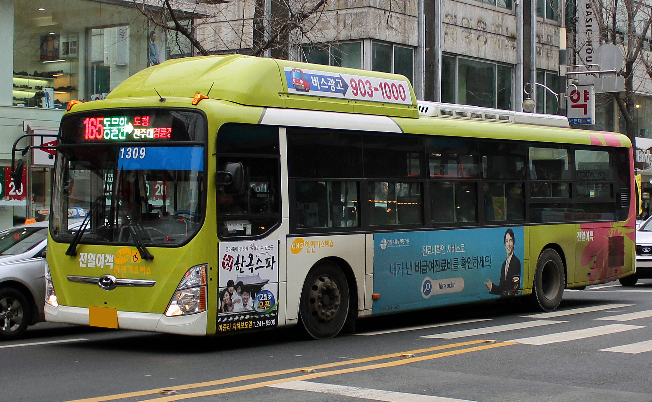 Jeonju Bus Route 165